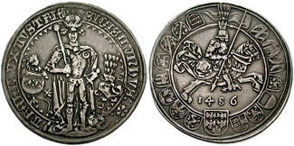 Austria, Tyrol. Archduke Sigismund. 1477-1490. AR Guildiner (31.43 g). Dated 1486. •SIGISMVNDVS: *: ARCHIDVX• AVSTRIE•, Sigismund standing in armor, wearing crown and holding orb; shield to left, crested helmet to right Armored knight on horseback right, carrying banner; arms of Austrian provinces around. Frey 274; Davenport 8087. First dated crown of Europe.